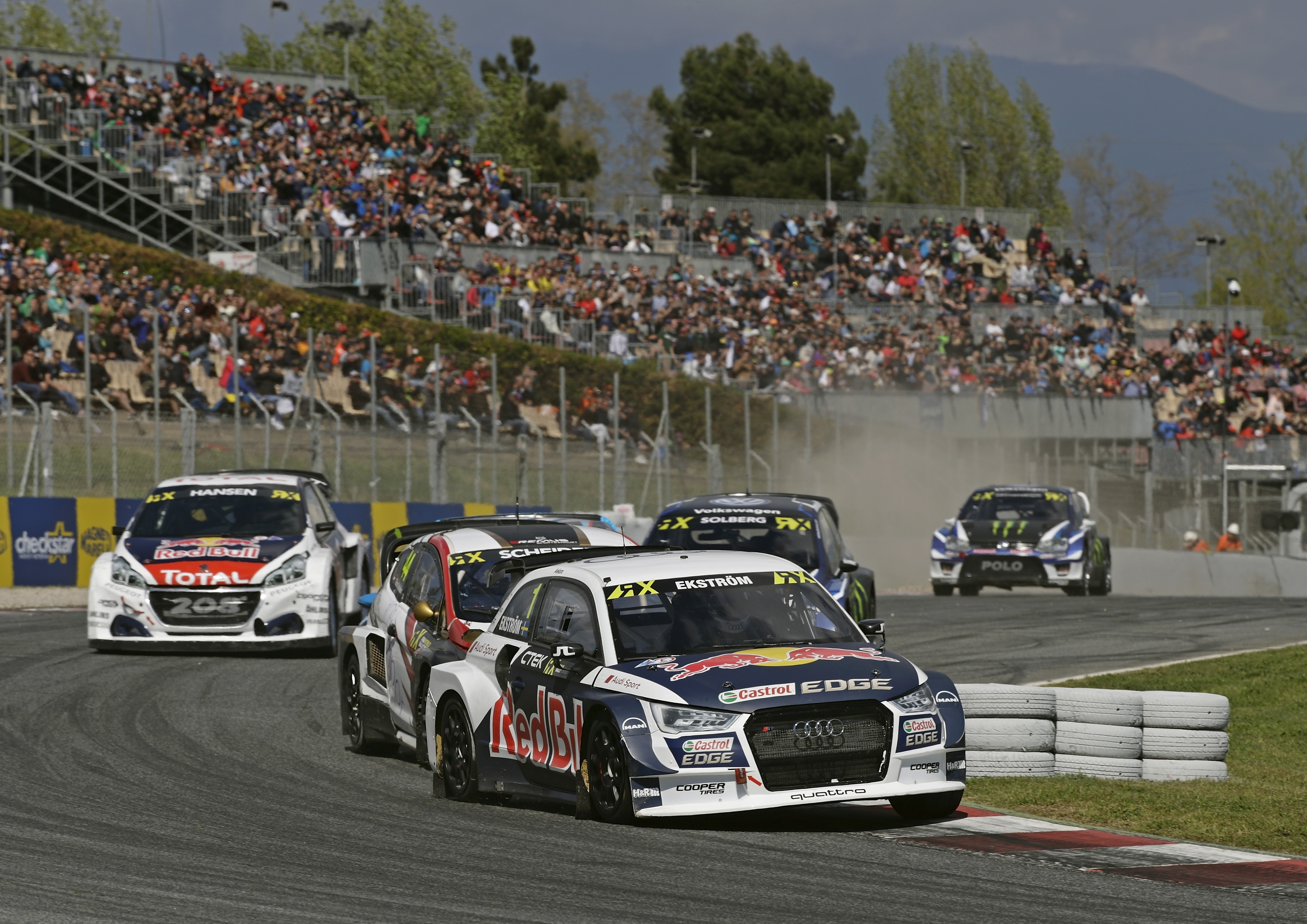 2017 FIA World Rallycross Championship // Round 01, Barcelona // Credit: EKS/Bodo Kraehling